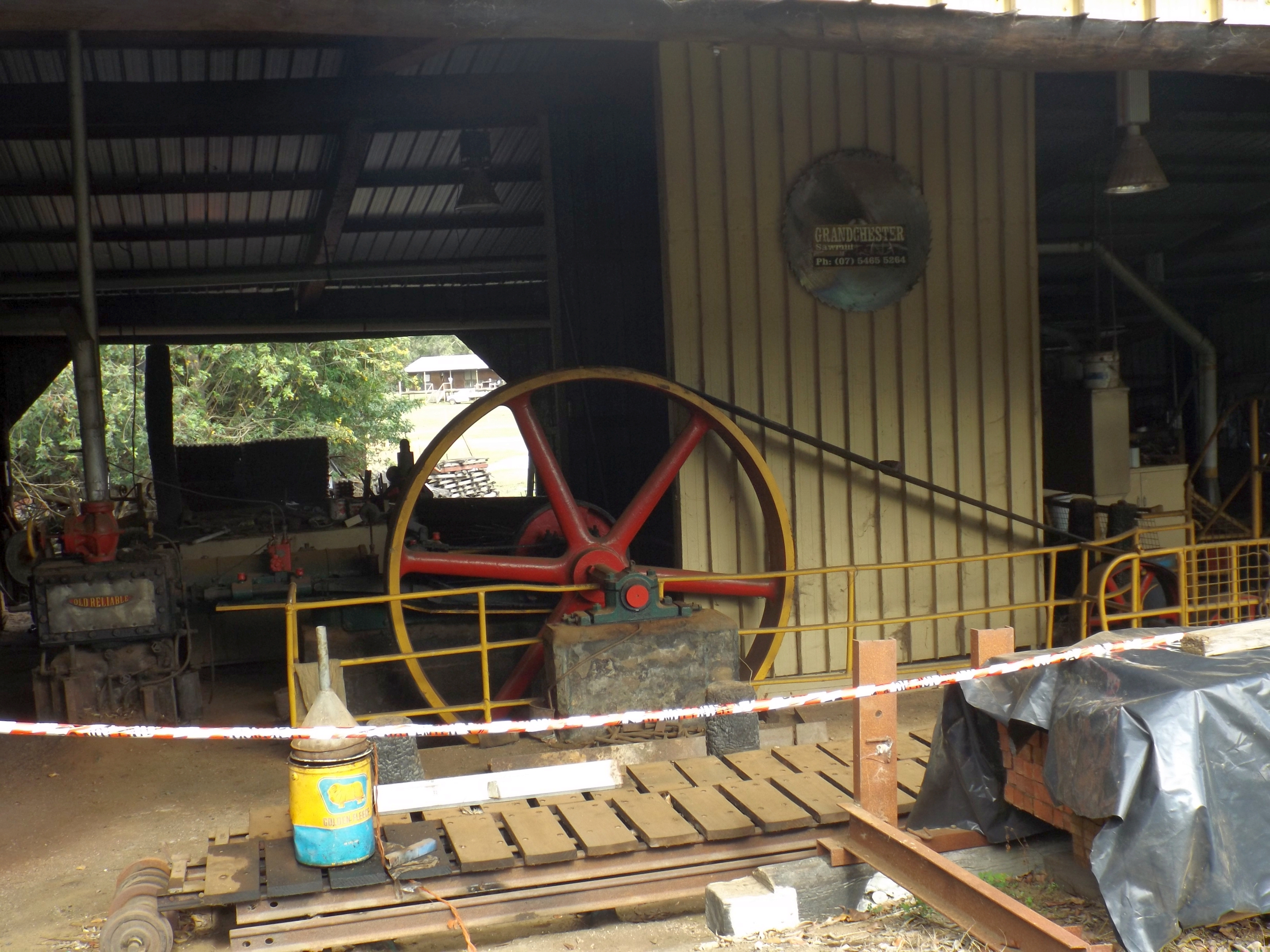 Photo of Grandchester Sawmill at Grandchester, Ipswich, Queensland, Australia.